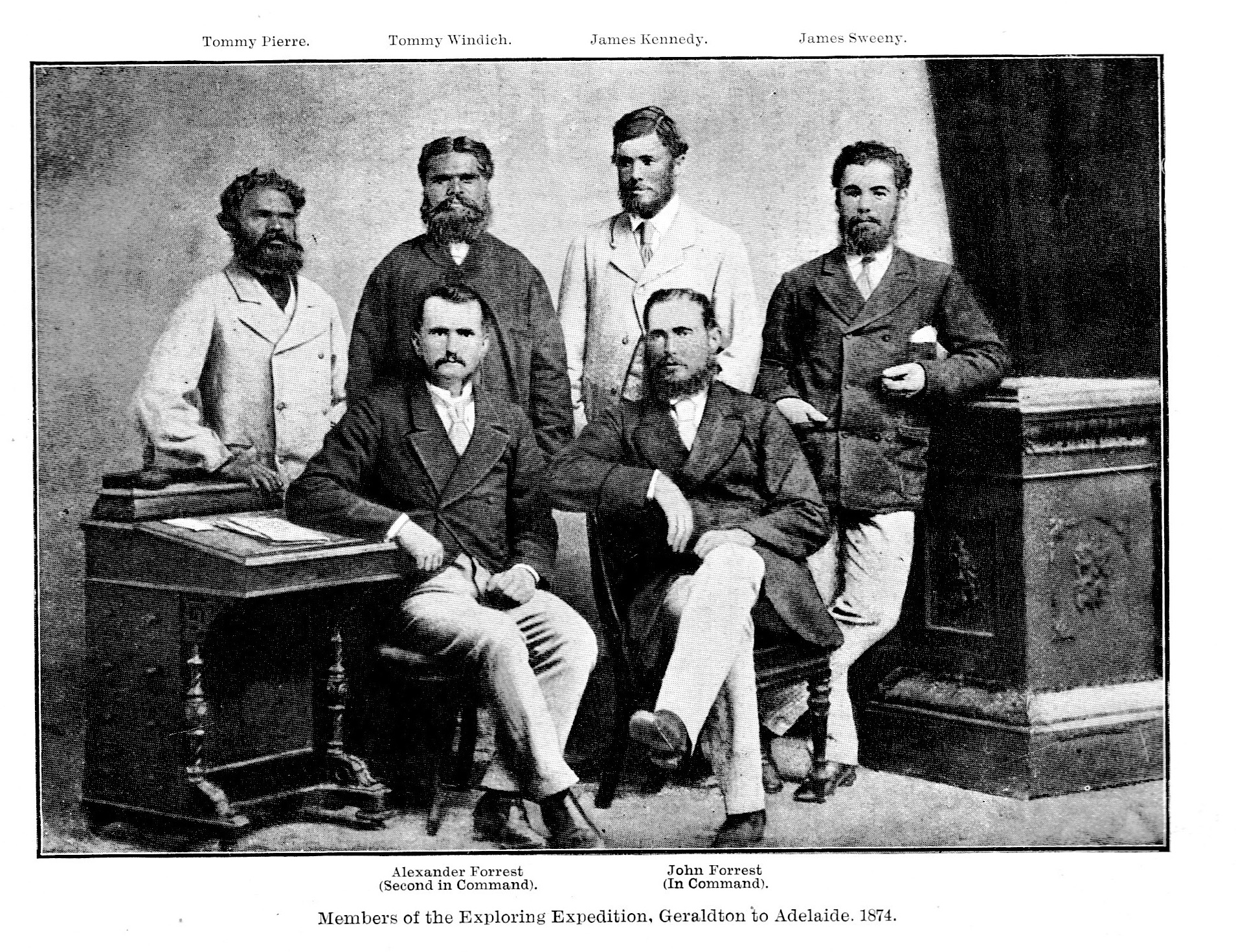 Other people shown in the photograph are Tommy Pierre, Tommy Windich, James Kennedy and James Sweeney